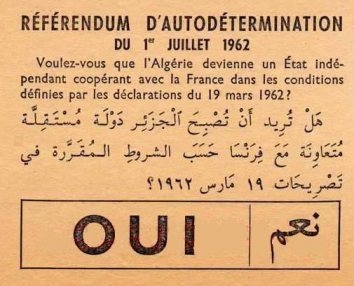 Bulletin "OUI" du référendum d'autodétermination de l'Algérie. 1° Juillet 1962.